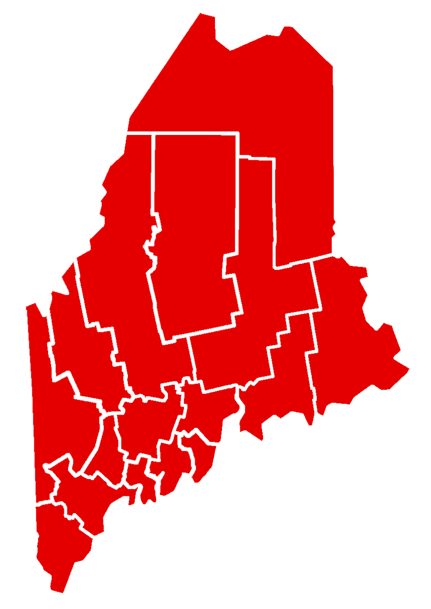 1950 Maine gubernatorial election by county. Made in photoshop.